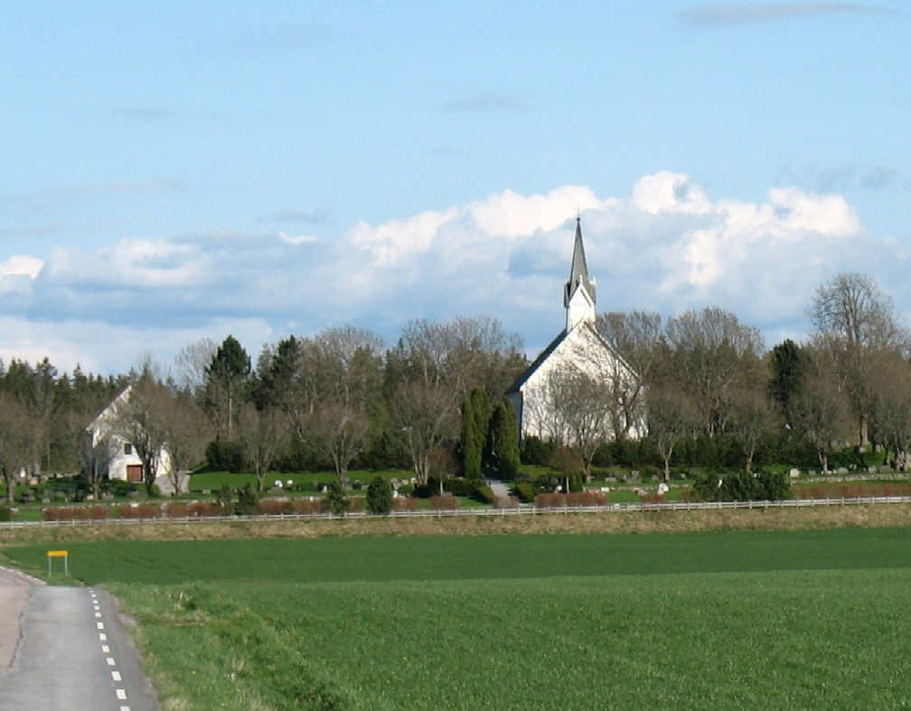 Berg Kirke and part of the churchyard located in Halden, Norway seen from east.